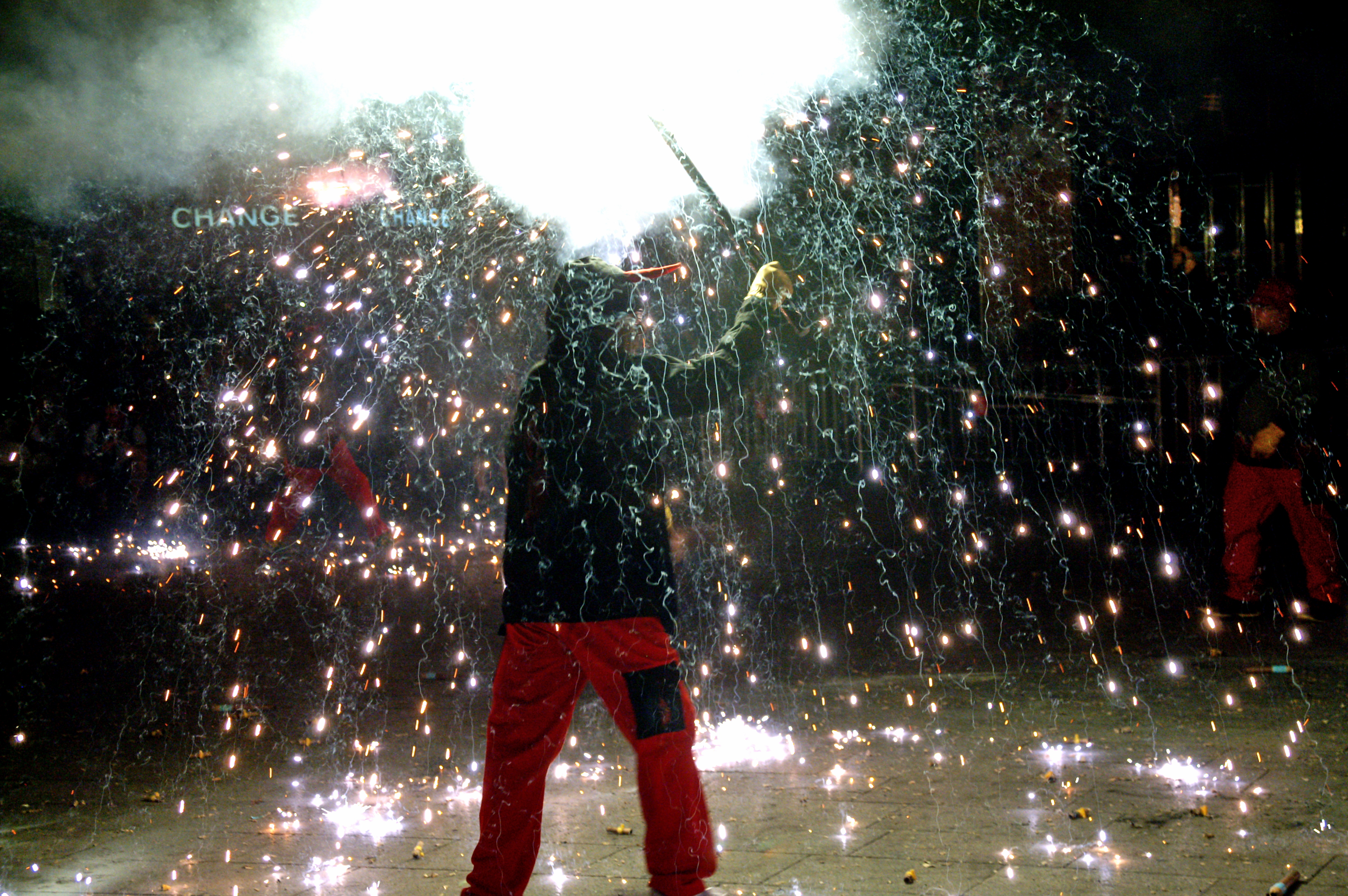 Correfocs "Diables del Clot" in Barcelona, Spain